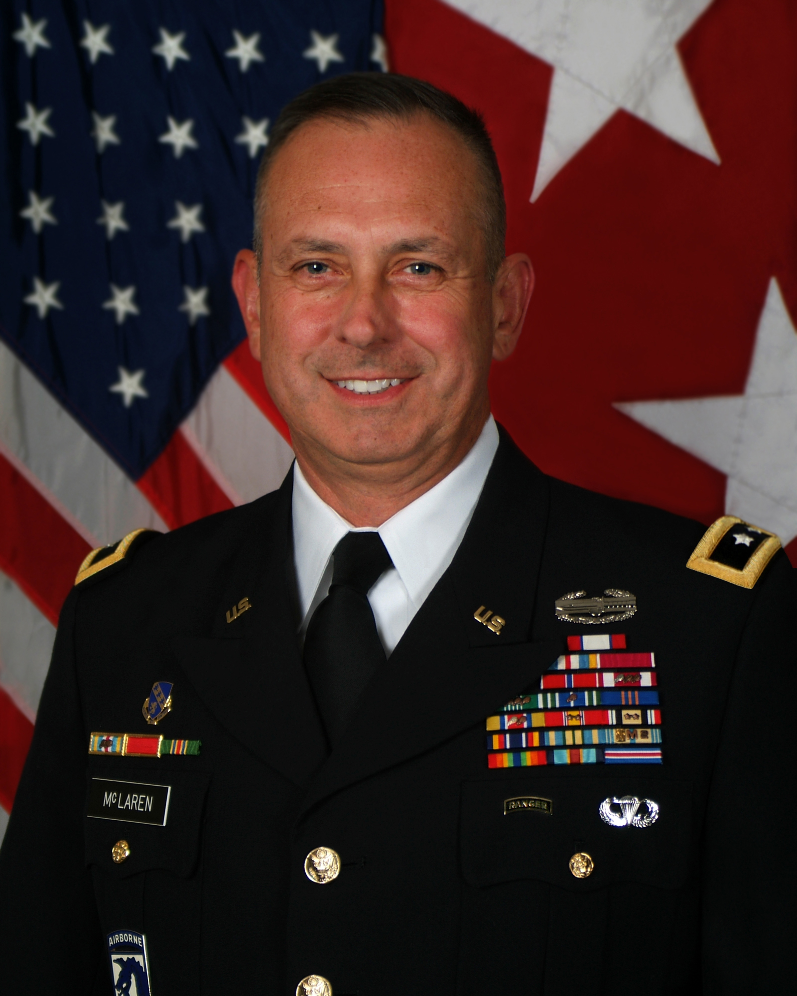 Photo of Maj. Gen. John P. McLaren, 80th Training Command (TASS), in his Army Service Uniform. This photo serves as a command photo in the chain of command boards and official biography of the commander.